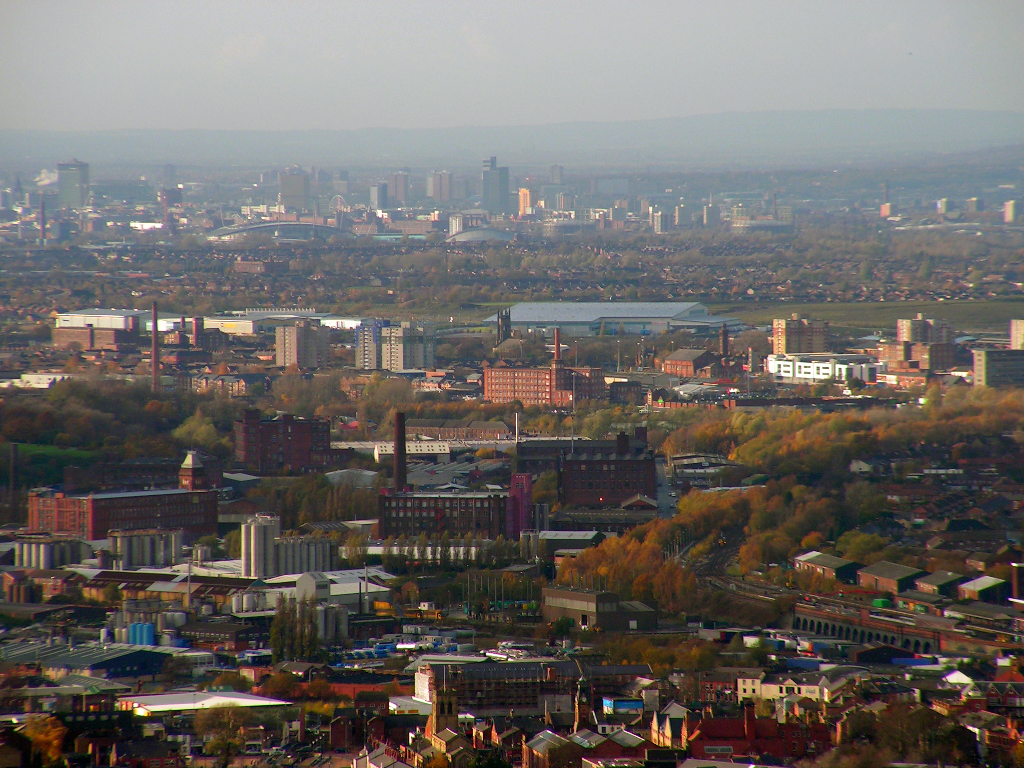 Stalybridge in Greater Manchester, England, as viewed from Hollingworthhall Moor. The City of Manchester is seen beyond (westerly) in the background.